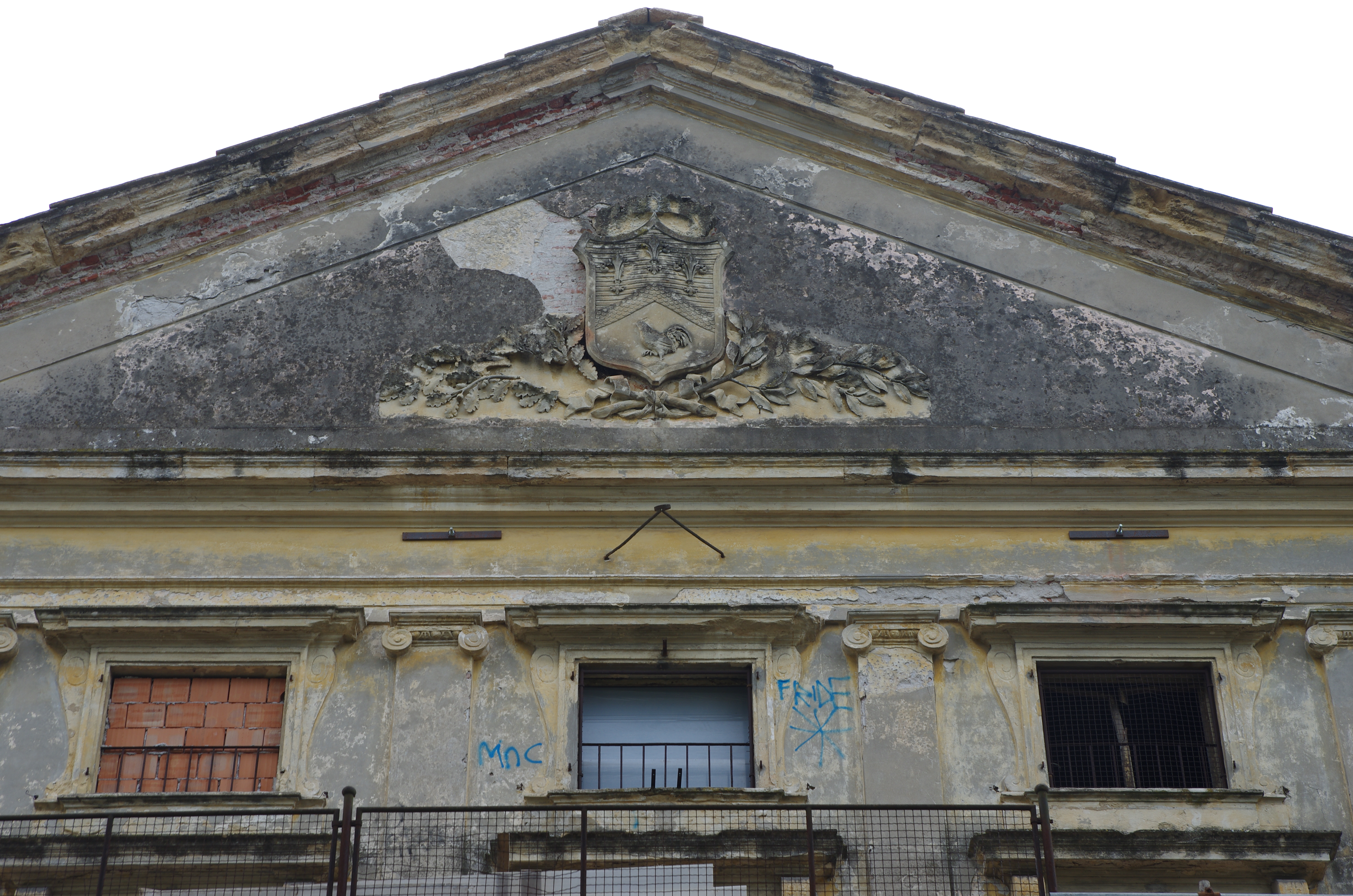 Typical example of mismanagement of the Italian cultural heritage, now being restored after decades of neglect